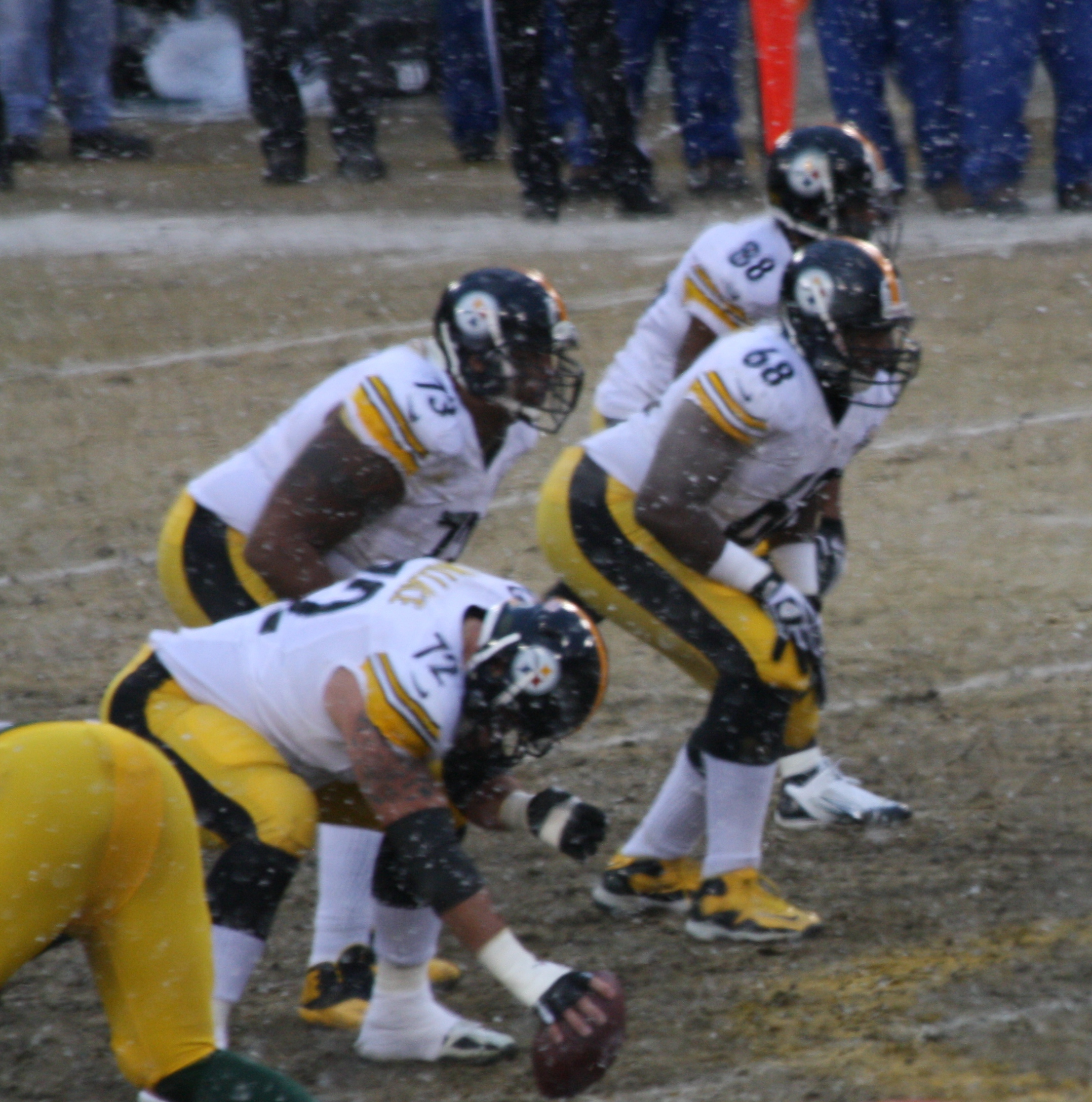 The left side of the 2013 Pittsburgh Steelers offensive line during Week 16 at Green Bay.